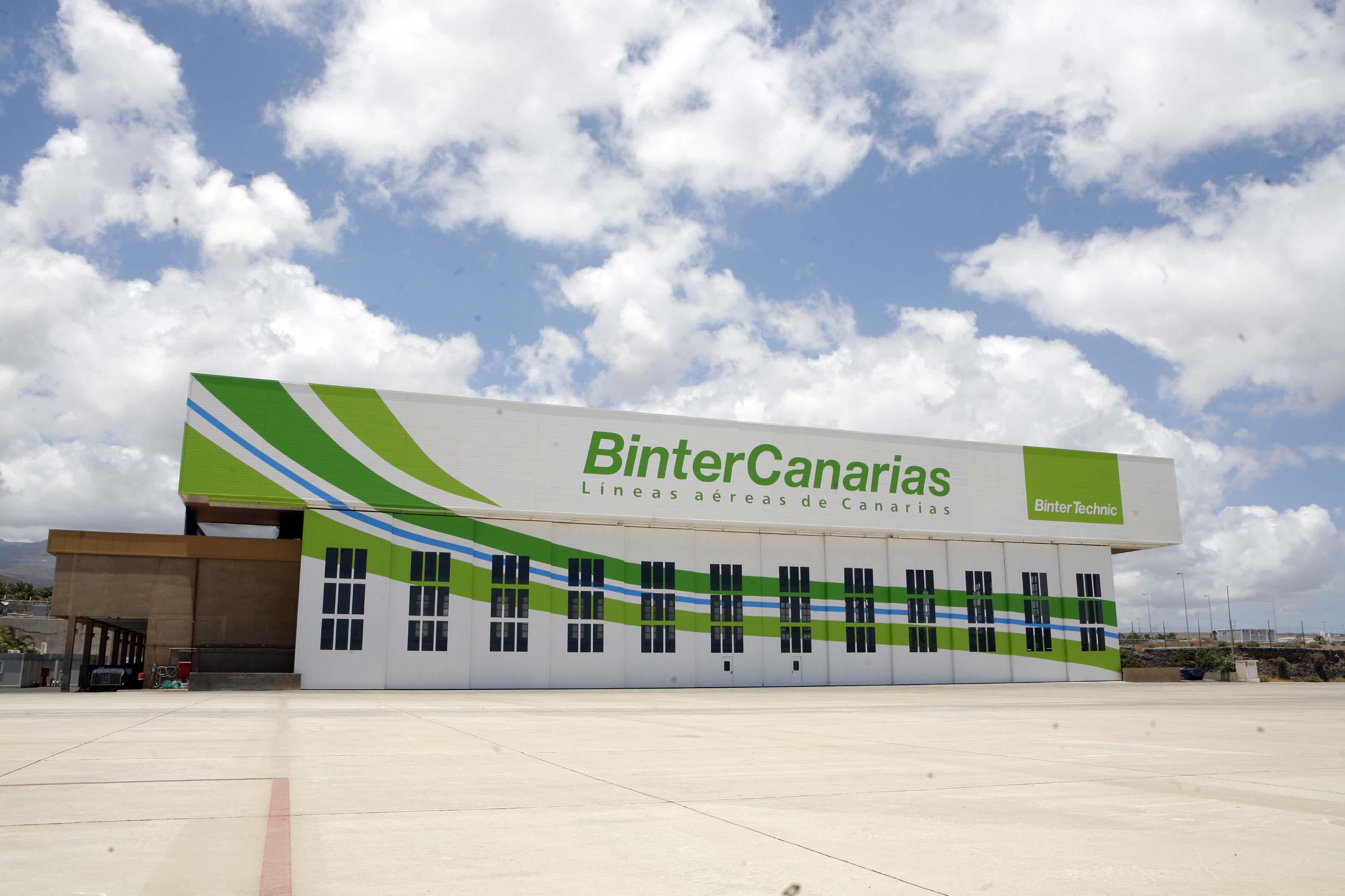 Hangar of the Binter Canarias airline in Gran Canaria